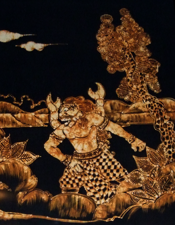 A cropped photograph of a batik picture depicting Yuyu Kangkang and the three sisters of Kleting Kuning. This crop focuses on Yuyu Kangkang, the giant freshwater crab.